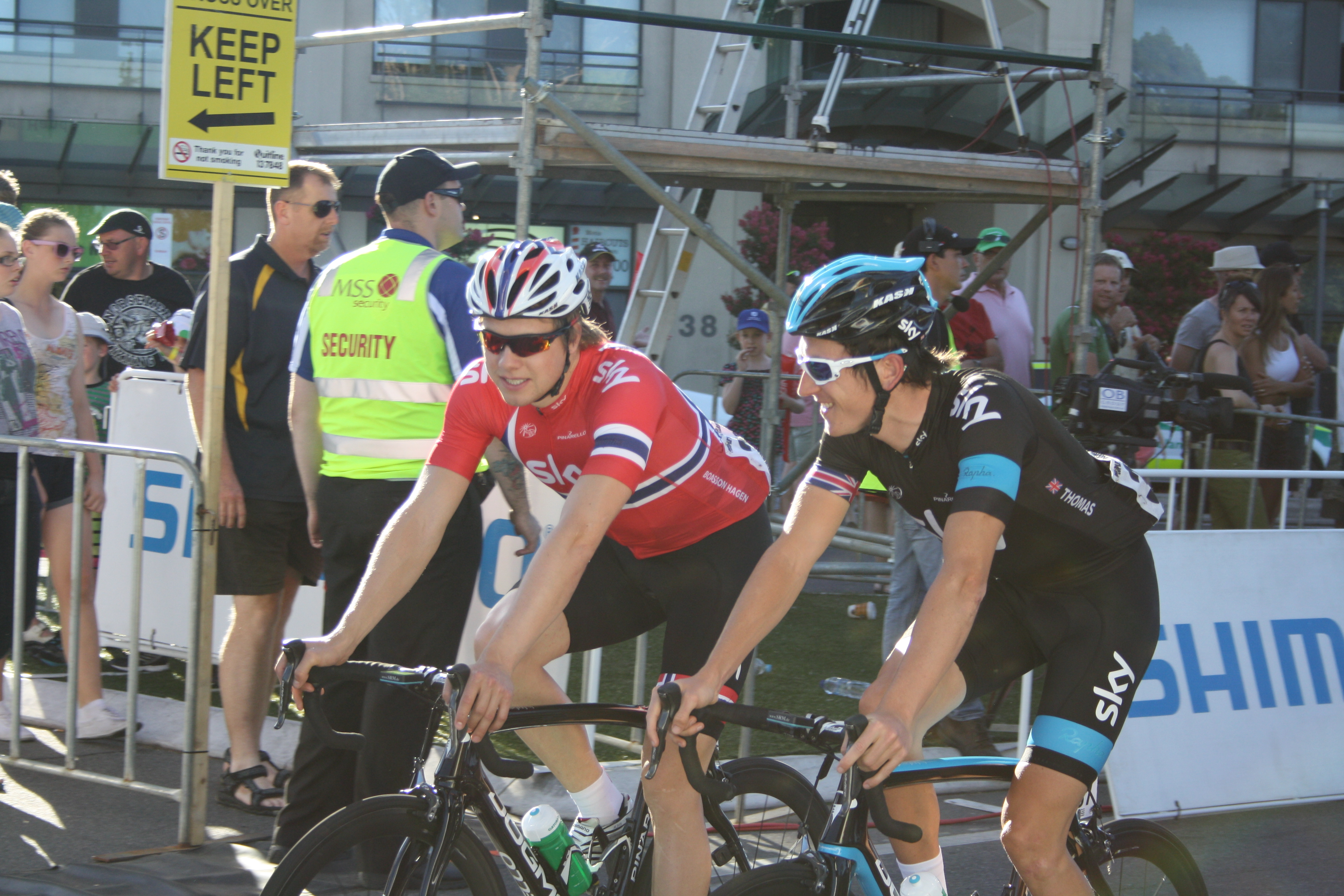 Once and for all commentator man, it is pronounced Gerr-Ant not Gerr-Oint!